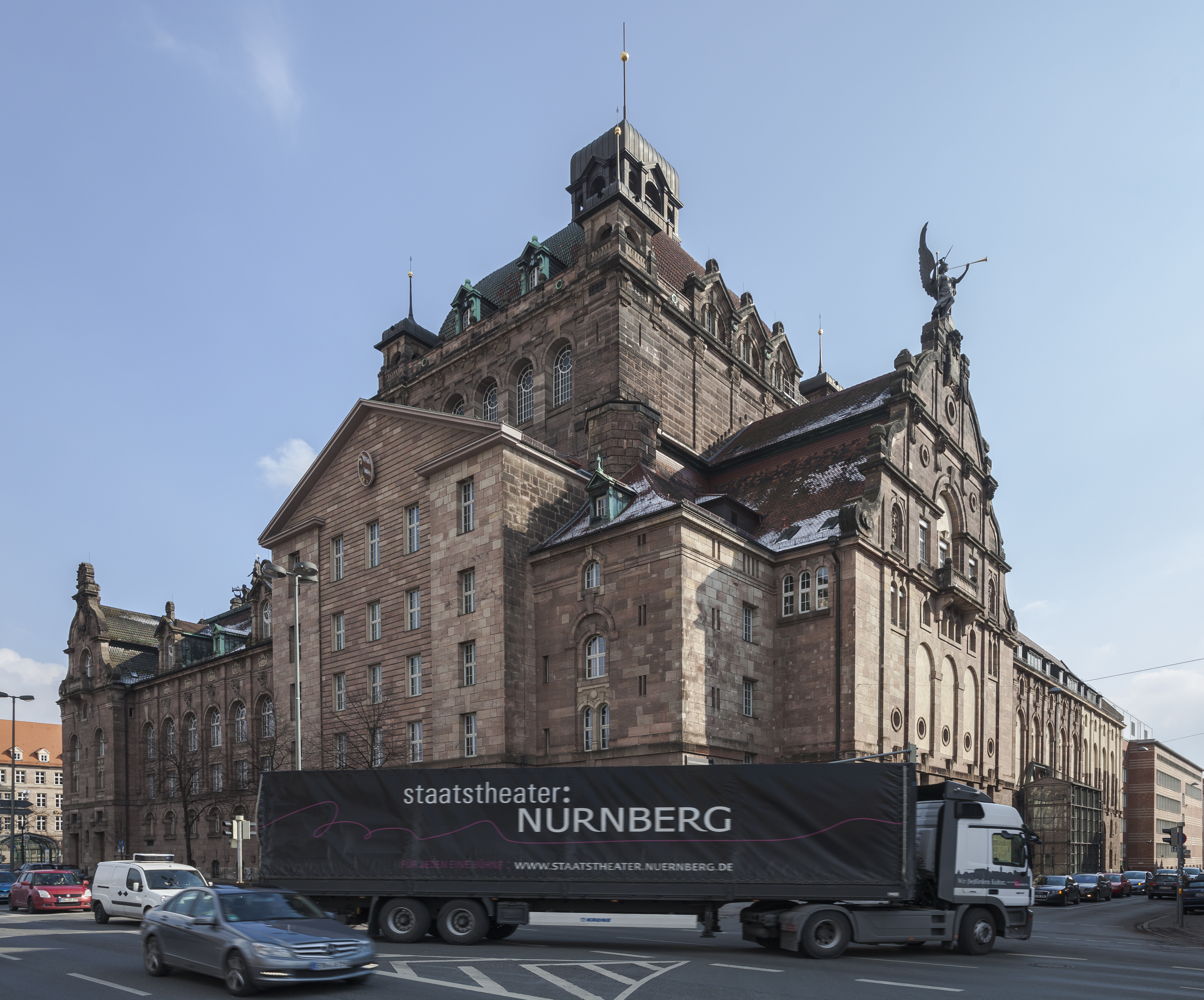 Opera house, Nuremberg, Germany